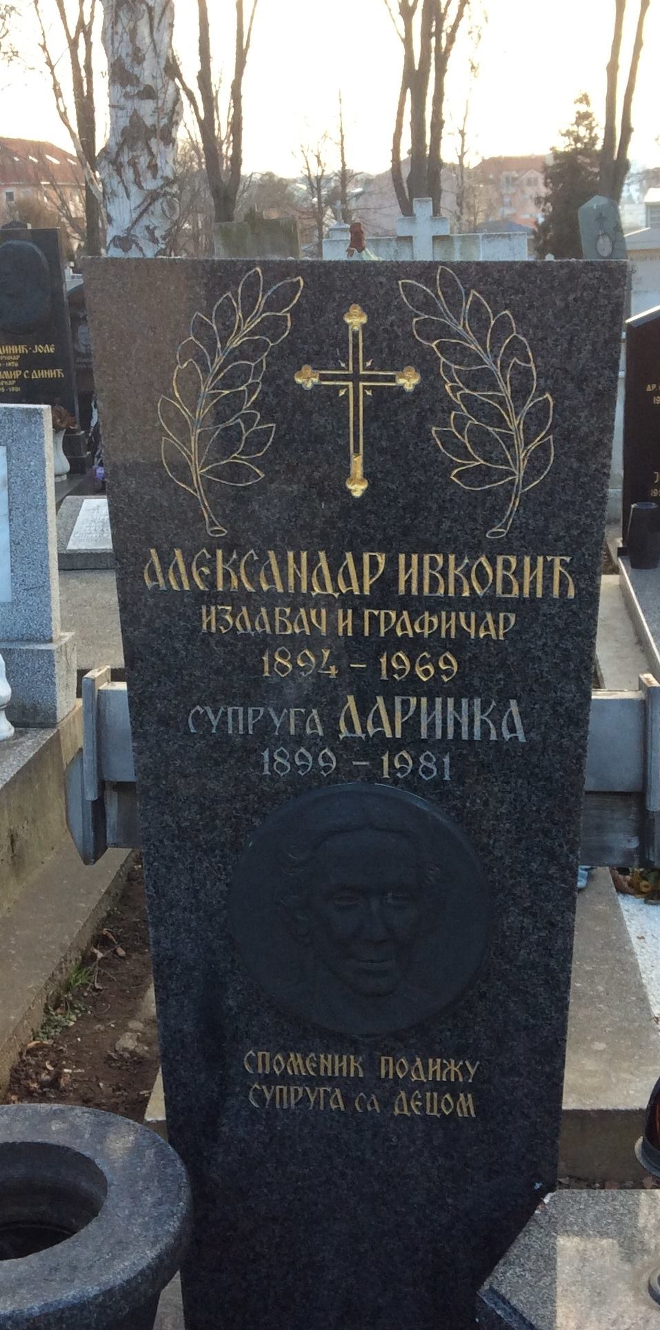 Grave Ivkovich (publisher)